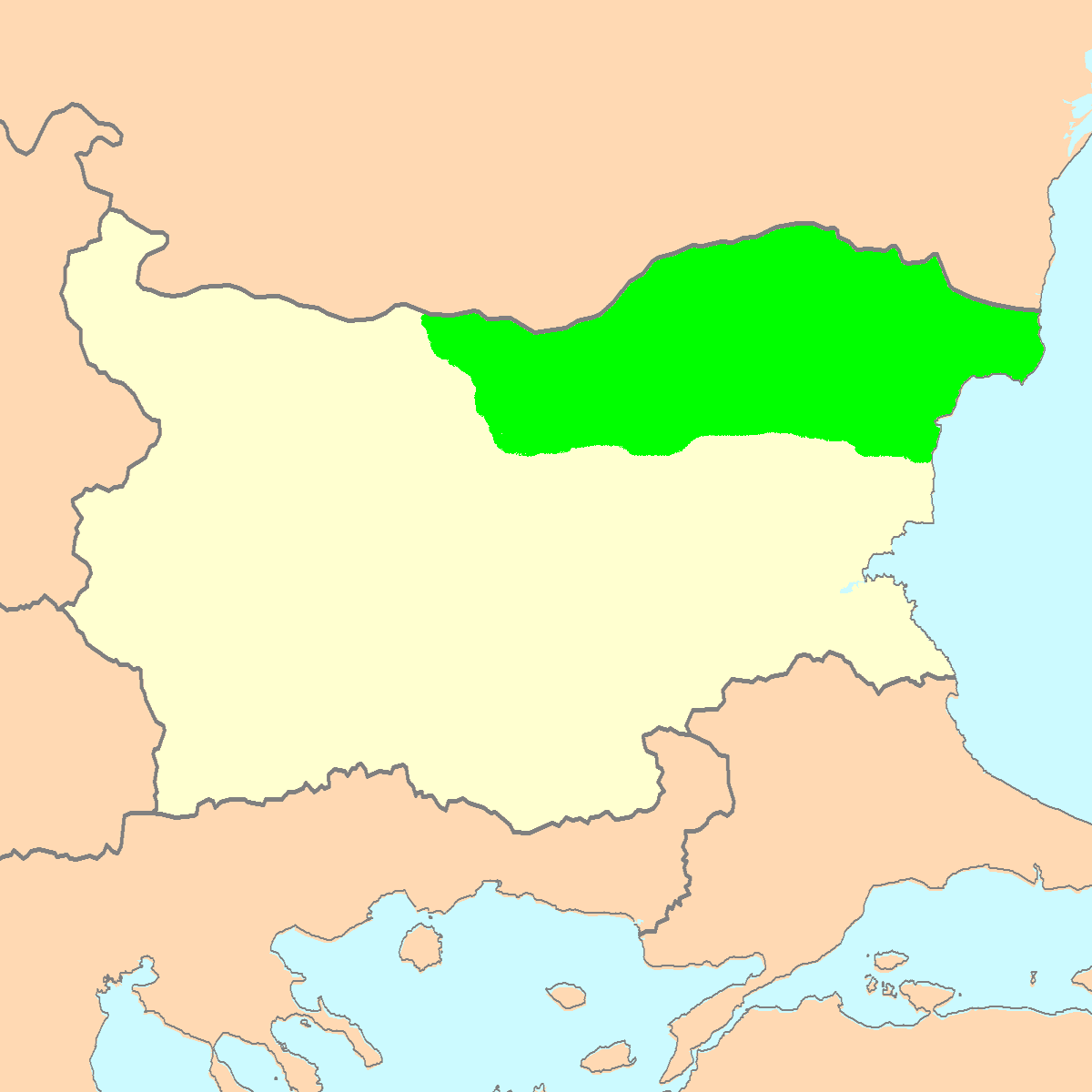 Norteast Bulgarian Fine Fleece Sheep areal of distribution